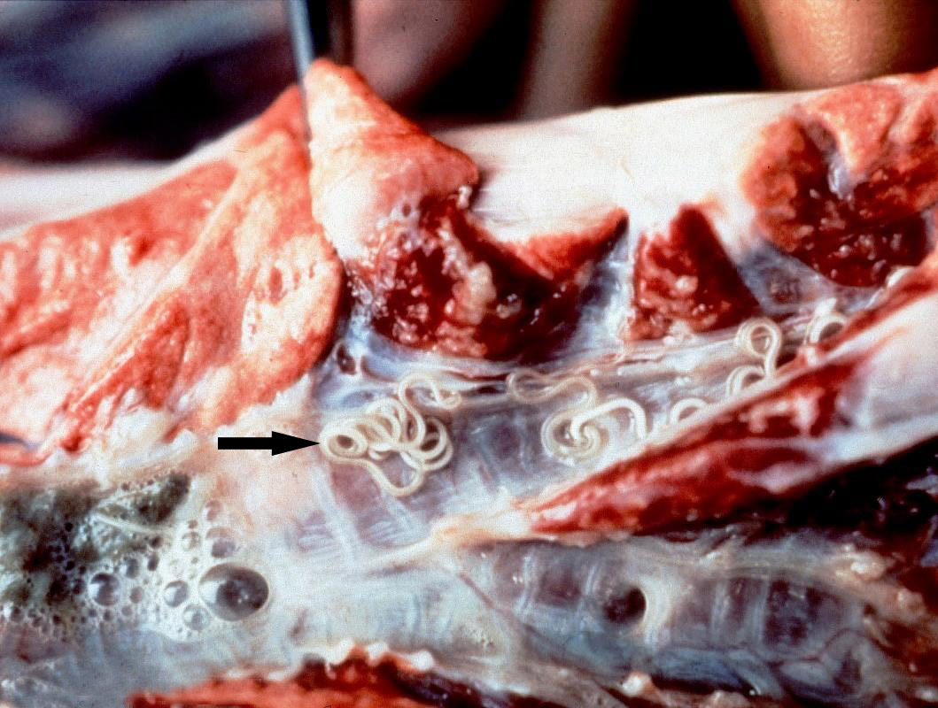 Infection of bronchi of a calf with adults of Dictyocaulus viviparus nematode parasites.